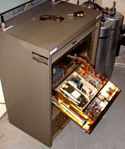 2 Meter GE Mastr II repeater used by The RIT Amateur Radio Club K2GXT.